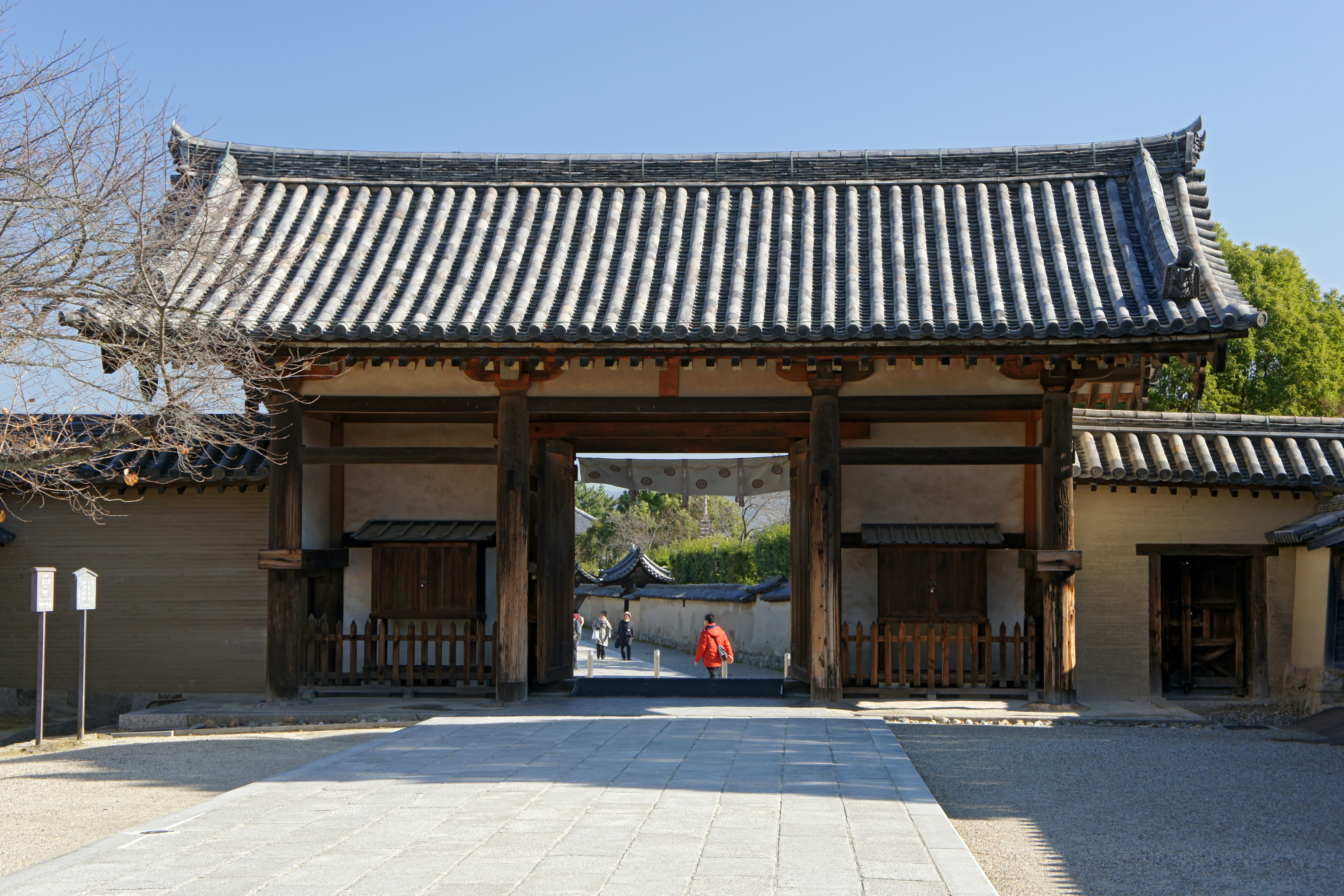 Tōdaimon of Hōryū-ji is a Japan's National Treasure. Hōryū-ji is a Buddhist temple in Ikaruga, Nara prefecture, Japan. It was registered as part of the UNESCO World Heritage Site "Buddhist Monuments in the Hōryū-ji Area".